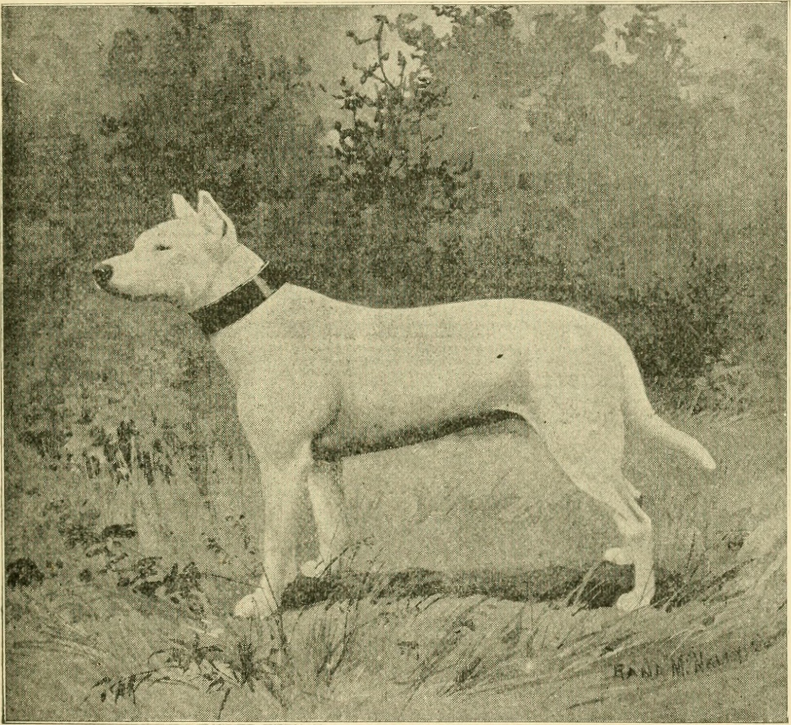 Title: The American book of the dog. The origin, development, special characteristics, utility, breeding, training, points of judging, diseases, and kennel management of all breeds of dogs Year: 1891 (1890s) Authors: Shields, G. O. (George O. ), 1846-1925, ed Subjects: Dogs Publisher: Chicago, Rand, McNally Text Appearing Before Image: THE BULL TERRIER. 427 Althoiigii at the time I bought her she was over eight years old, 1 gave tifty pounds for her. She was supposed to be in whelp to Dutch, but did not prove to be. At the Jubilee Show^, in 1887, I met Mr. J. R. Pratt, from whom I pur- chased her; and in speaking of Bull Terriers, he said: "If Text Appearing After Image: STARLIGHT. Owned by F. F. Dole, 115 Blake street, New Haven, Conn Maggie May will breed, you have the best Bull Terrier in the world." Before leaving America I had bred her to Gtand Duke, and his remark made me suspicious of her condition. I immediately cabled to Amei-ica, and found, to my relief, that she was in whelp. This litter produced three bitches and one dog. Shortly after birth the dog died, but of the three bitches I sold one, who has since died. The two I